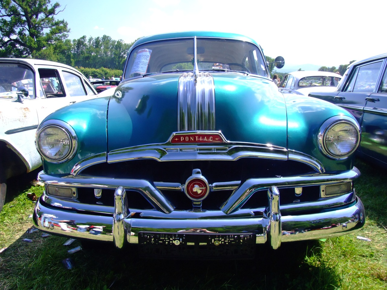 1952 Pontiac Fleetleader Four-Door Sedan (Canadian).